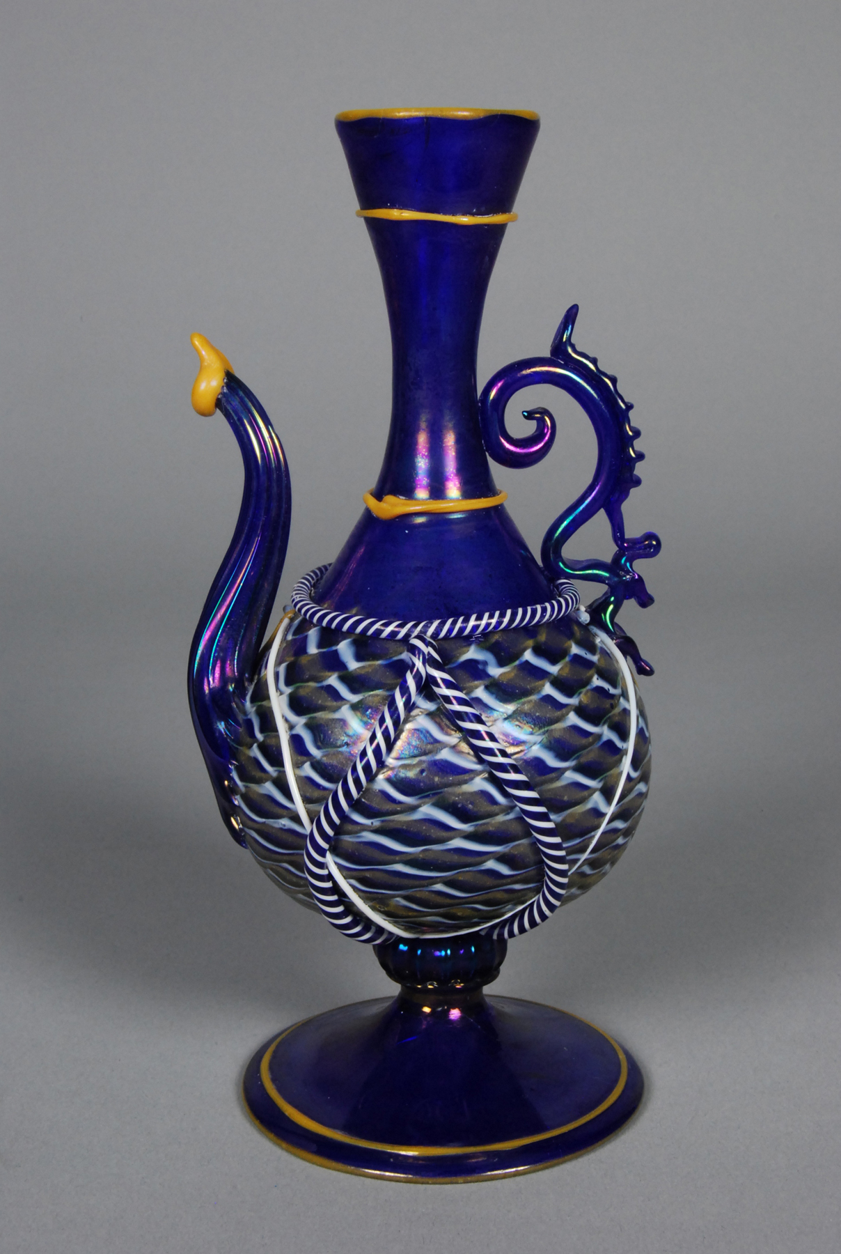 Salviati & Company produced faithful copies of ancient vessels, but the firm was also known for original fanciful designs. New creations, such as this ewer, combined the styles and techniques of ancient Egypt with forms associated with Renaissance Venice. In ancient Egypt, vessels were formed by heating powdered glass in a furnace around a clay core. Once the glass had melted around the core, glassmakers trailed threads of molten glass around the vessel and combed the trails with a pointed tool to create patterns. The ewer combines the ancient trailing and combing techniques with the later technique of glass blowing to produce an entirely new effect.